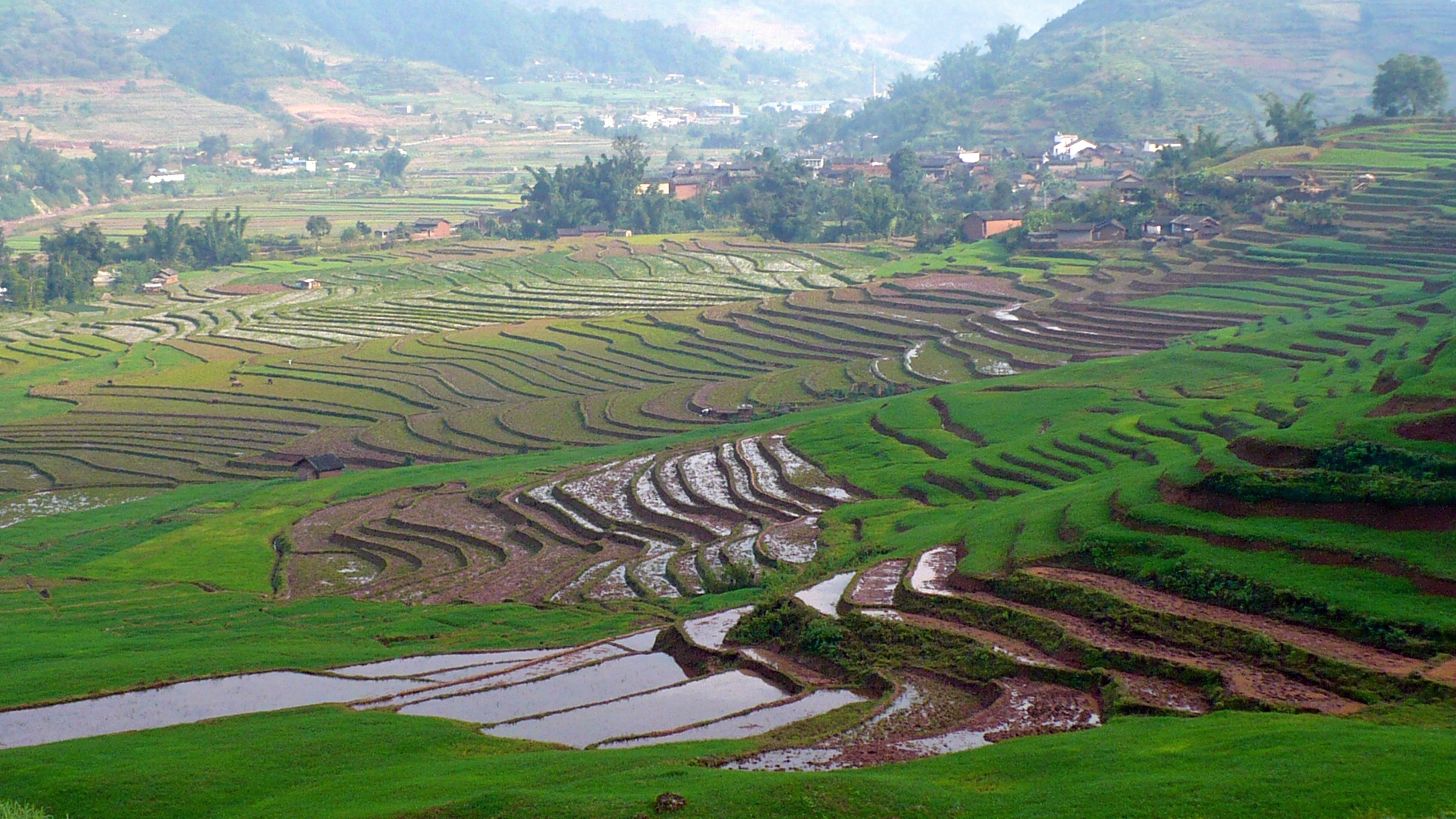 Terrace Rice Fields, Yunan China